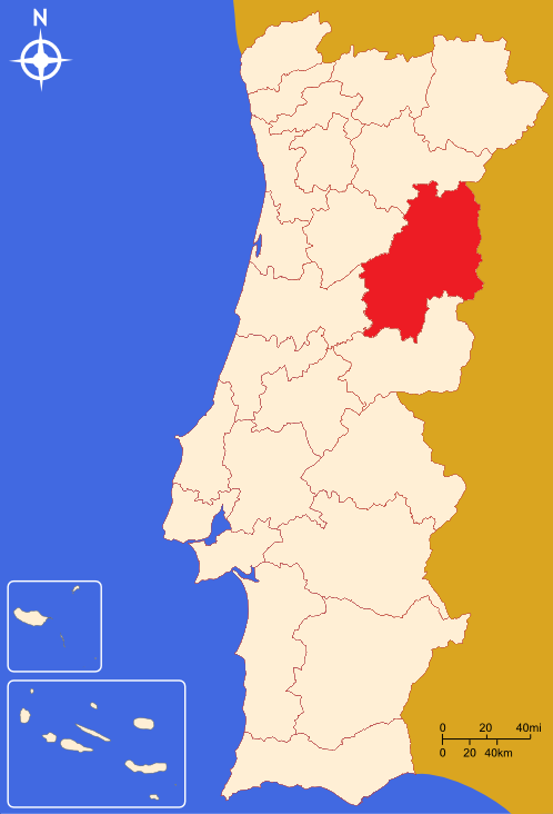 Comunidade Intermunicipal de Beiras e Serra da Estrela